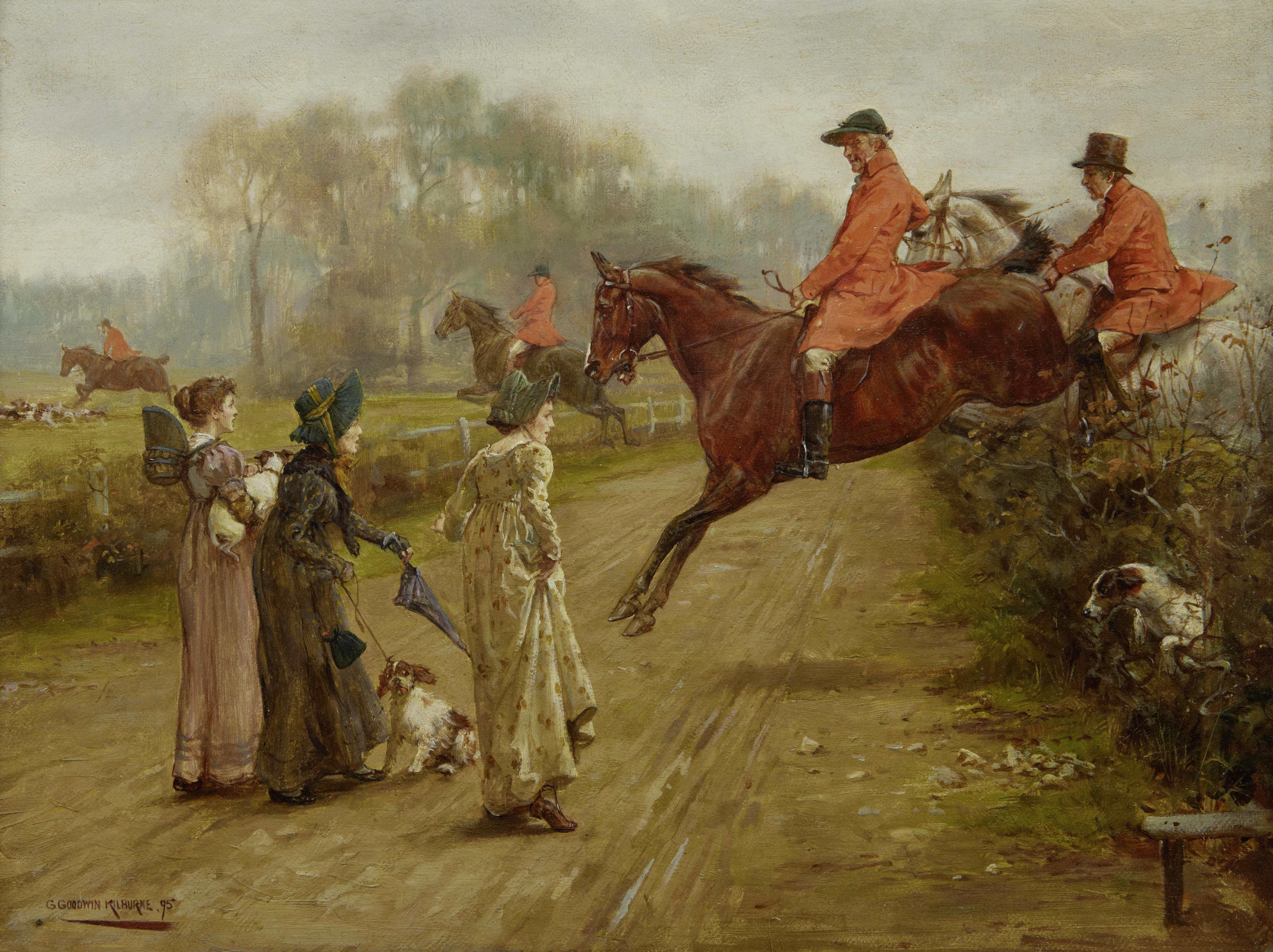 Watching the hunt; signed and dated 'G GOODWIN KILBURNE 95' (lower left); oil on panel; 23 x 31 cm. Late 19th-century genre depiction of early 19th-century or "Regency" scene